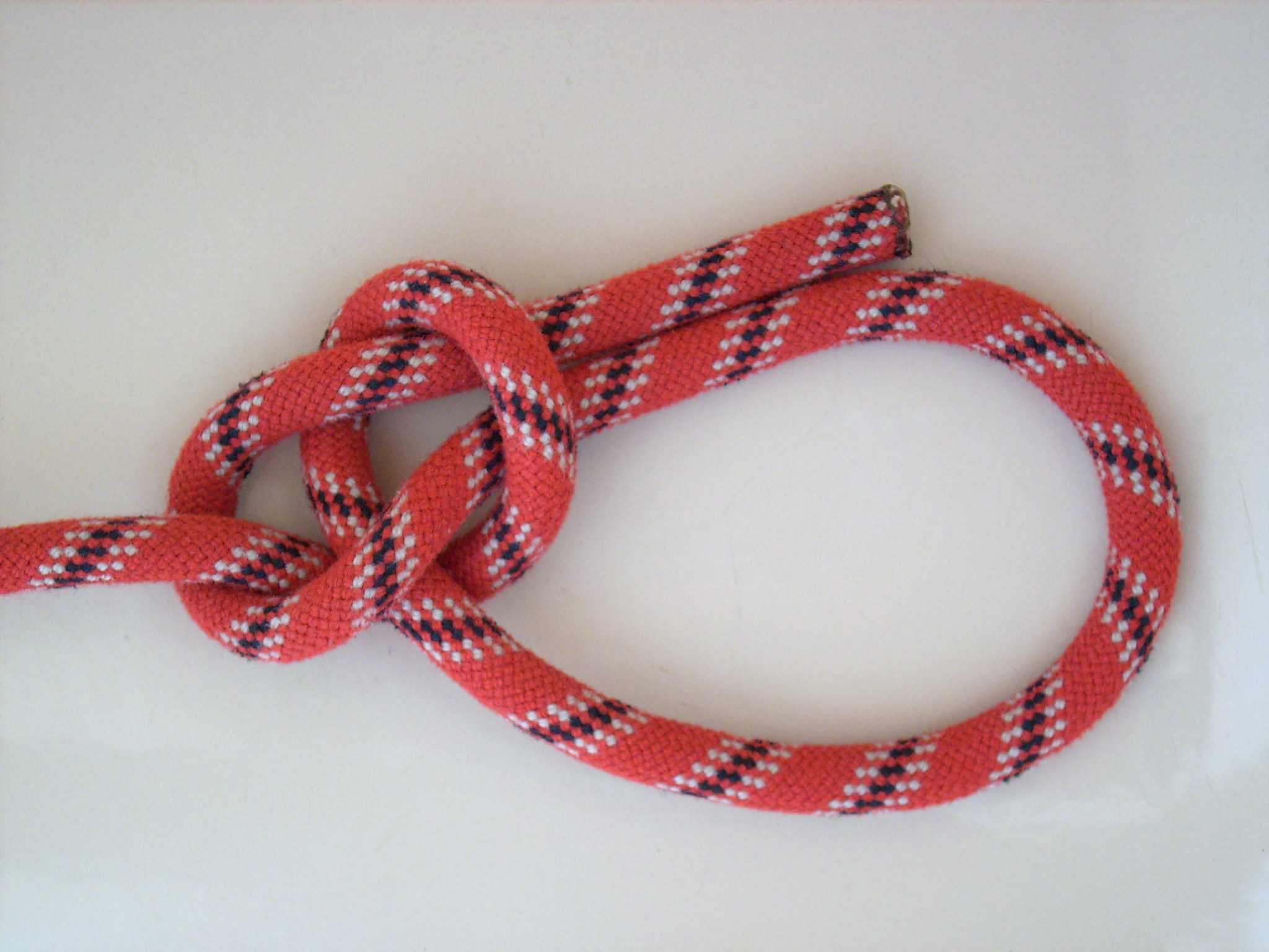 Cowboy bowline knot (variation on the standard bowline knot)